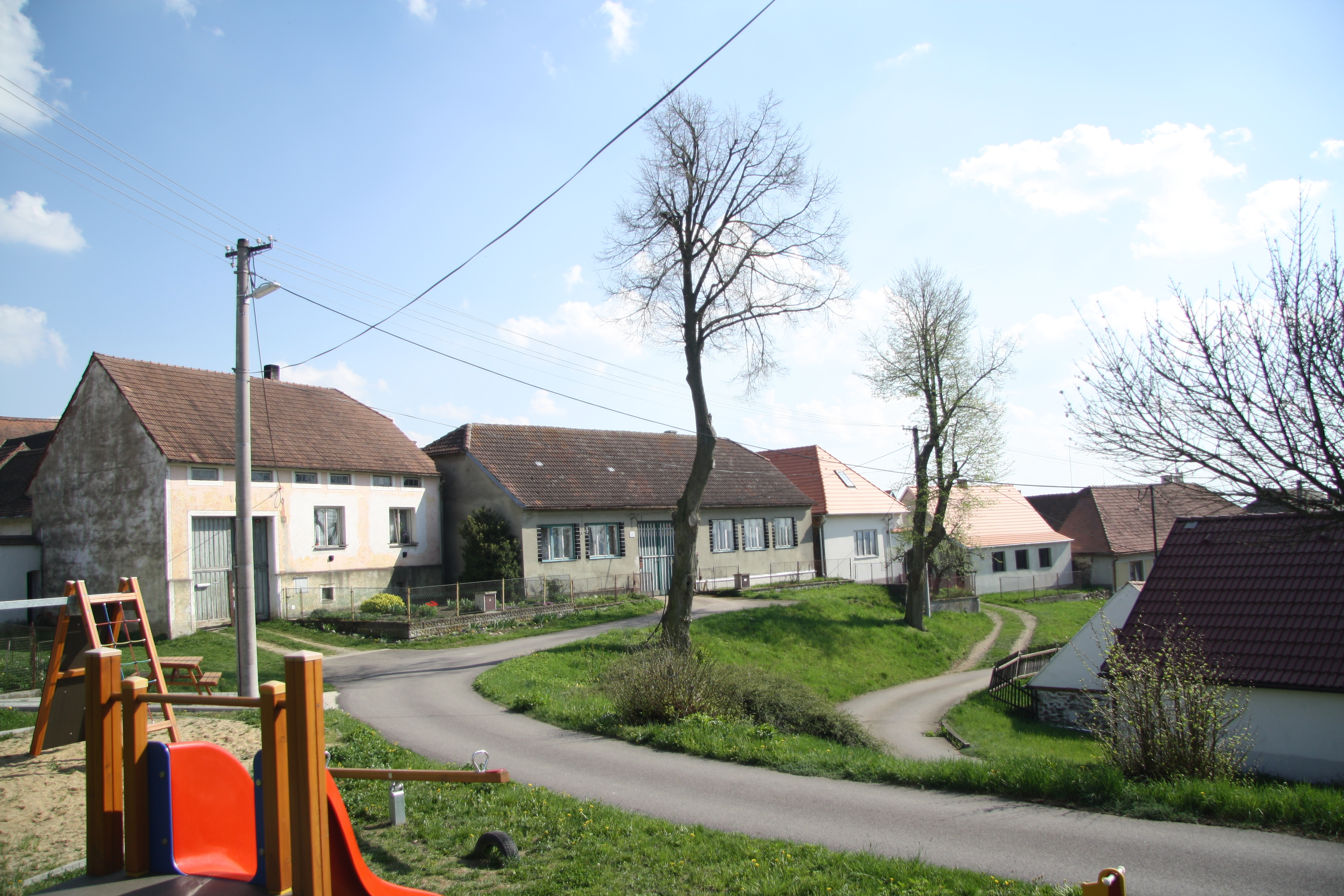 Center of Lomy in 2018, Třebíč District.